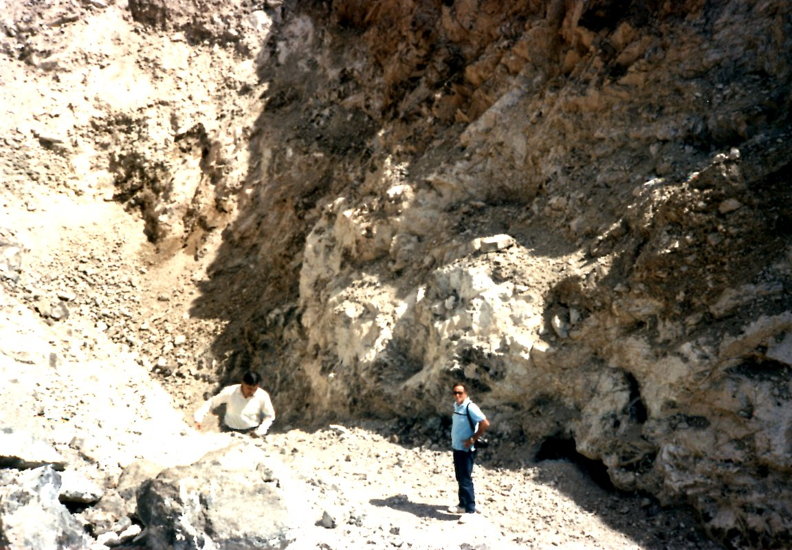 Chromite Deposit Muslimbagh